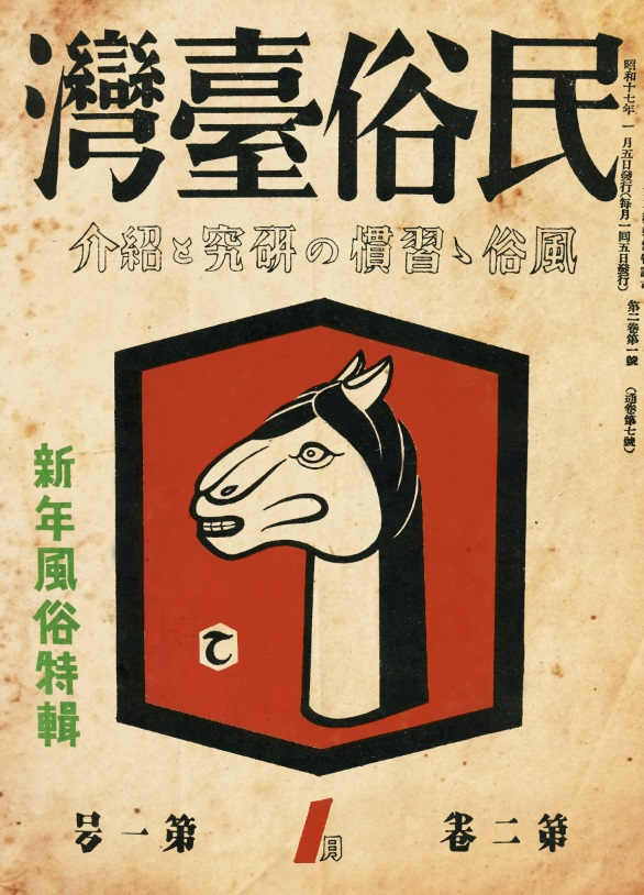 Bin-siok Tai-oan Magazine 2-1